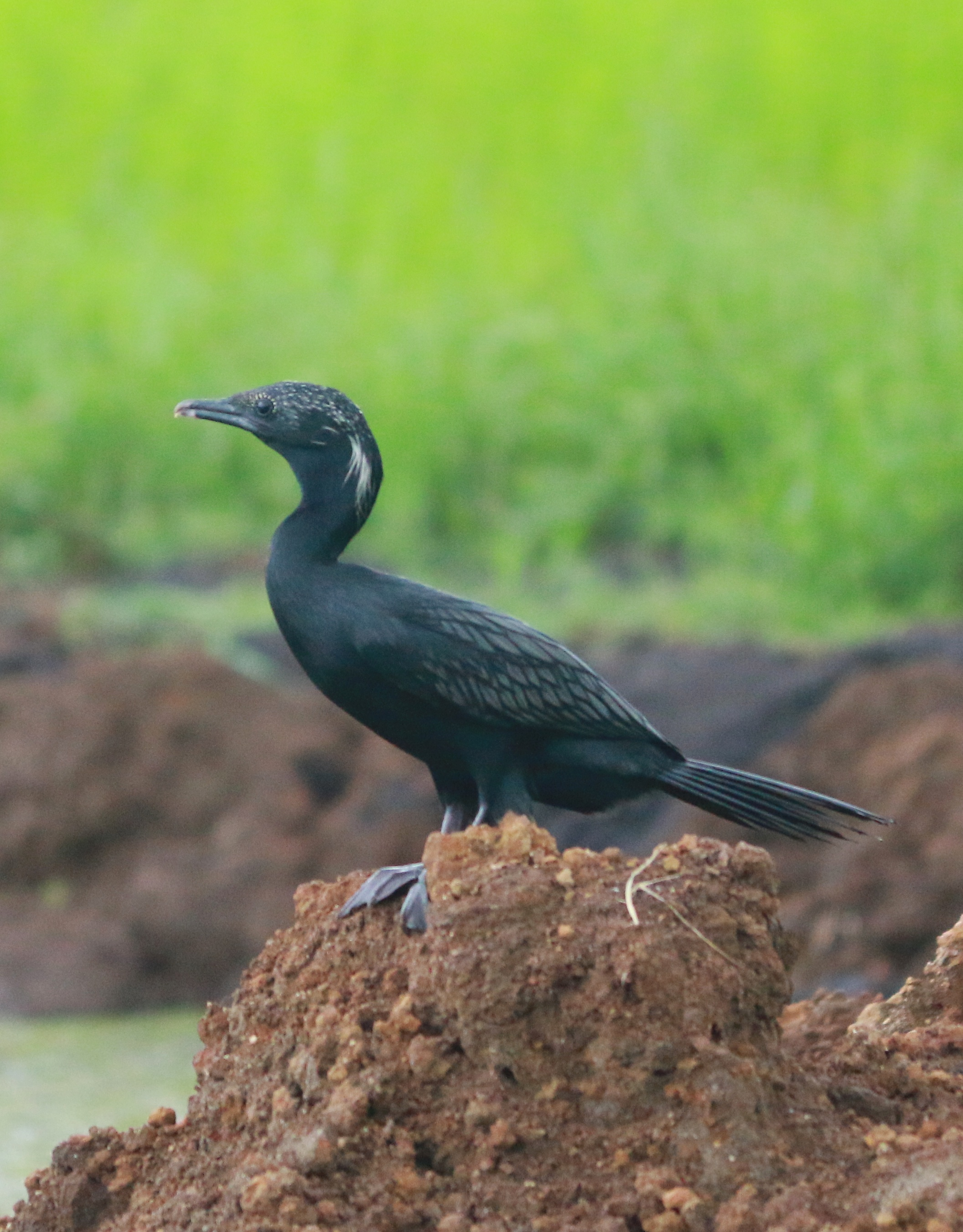 Little cormorant in a wetland